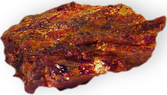 These mineral images are free to use how you wish.